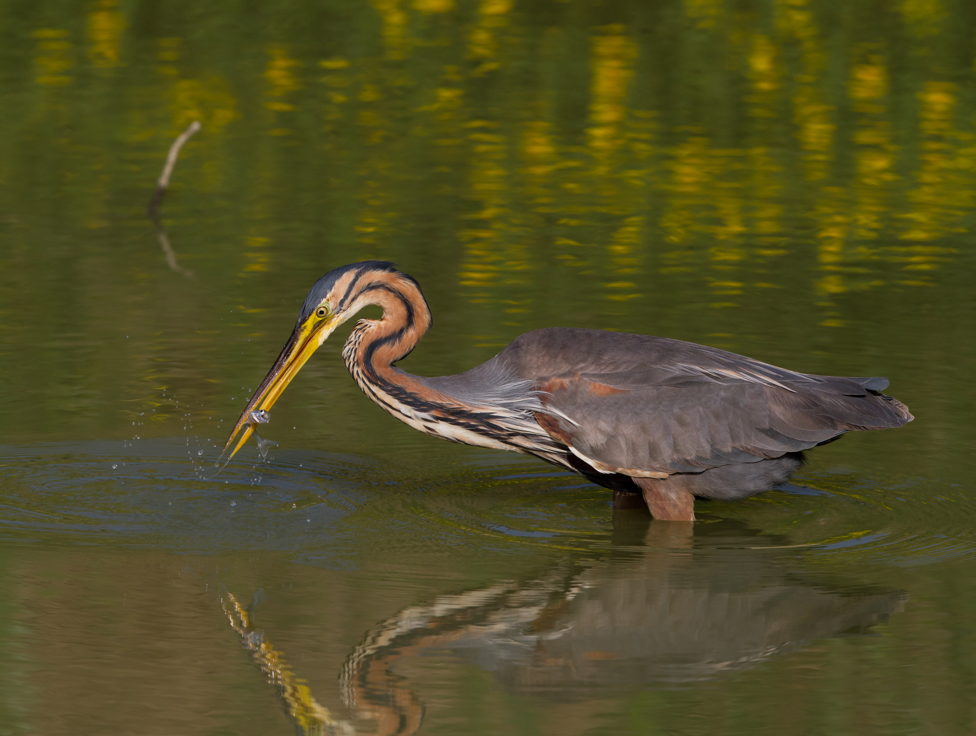 Purple heron. Adult